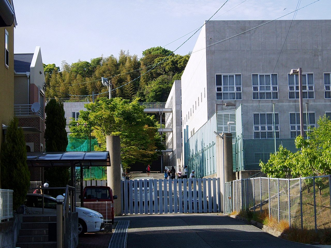 Entrance to Kobe International Junior & Senior High School located in Suma-ku, Kobe, Hyogo, Japan.